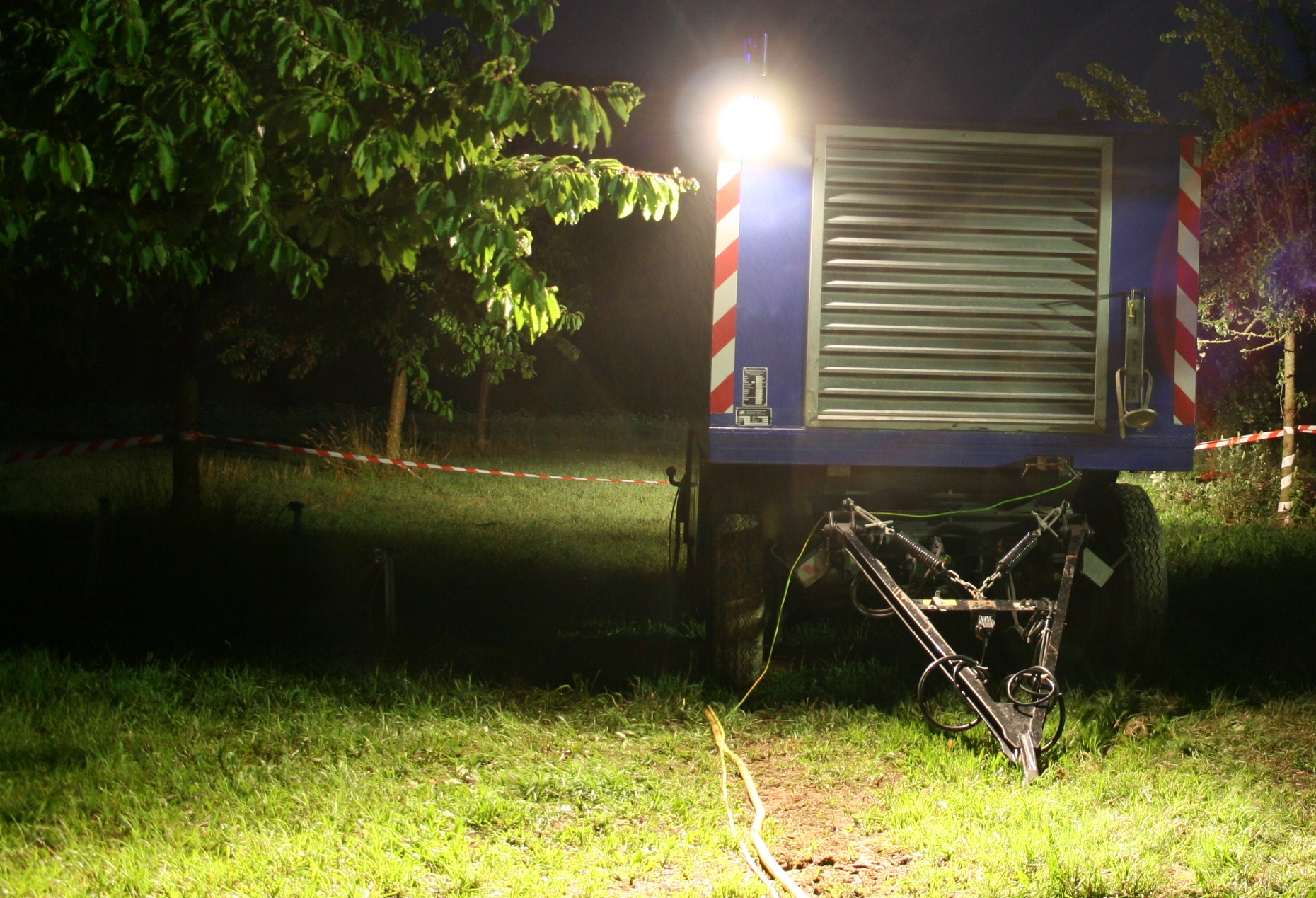 Emergency power system of the german federal agency for technical relief (chapter Biedenkopf) in operation. On the left side: part of the earthing system.